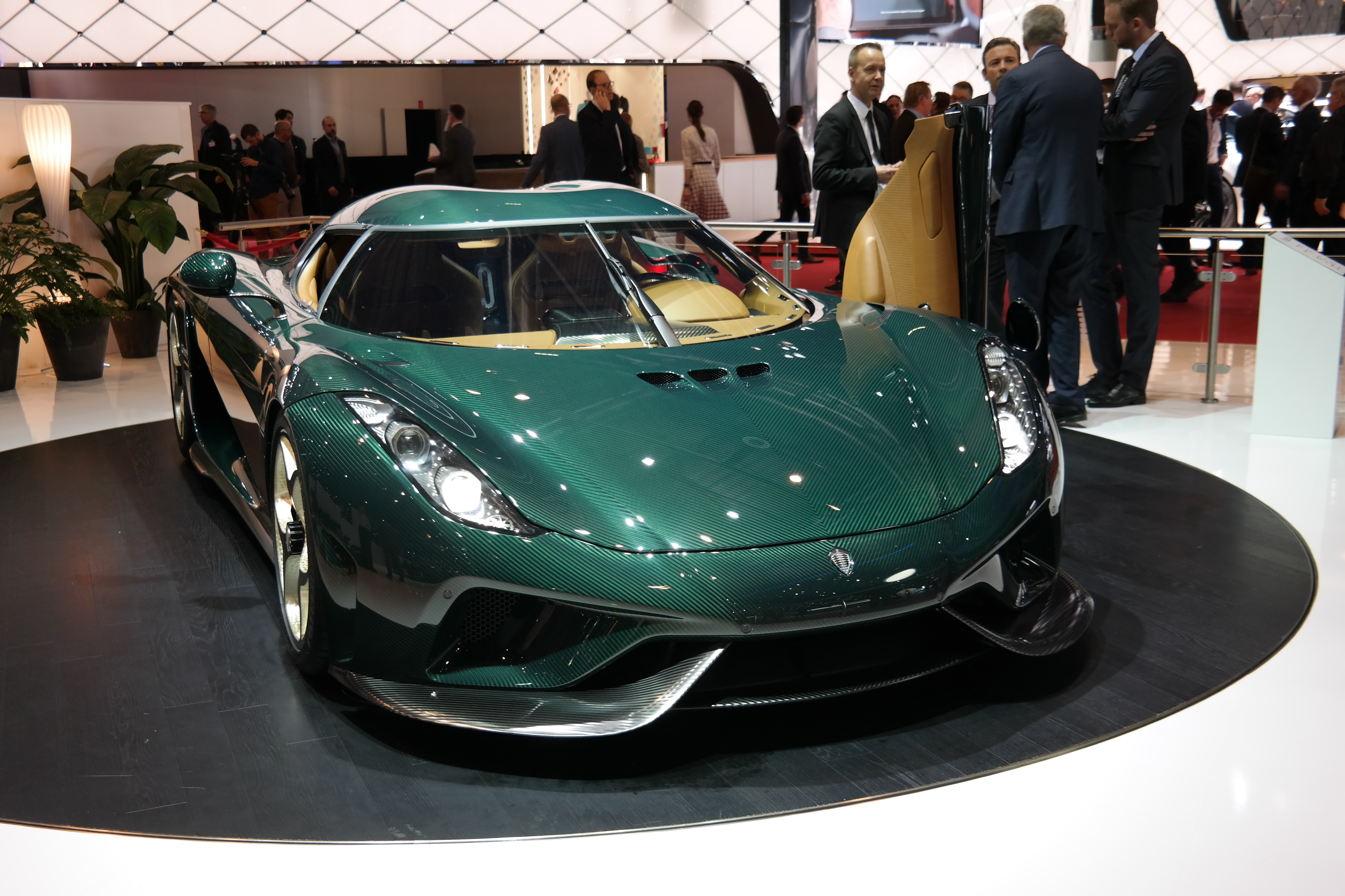 Geneva Motor Show 2017 (photo taken on the first press day)